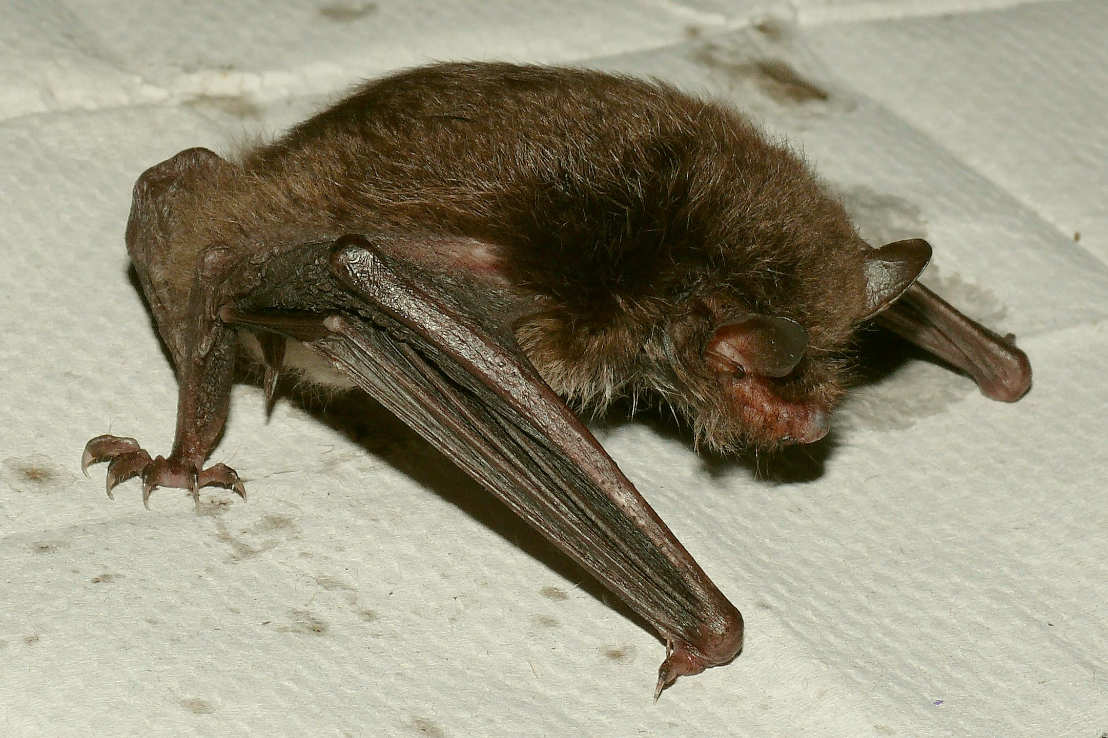 Myotis daubentonii this weakend animal has just been fed with "insect-soup" and we hope it recovers.